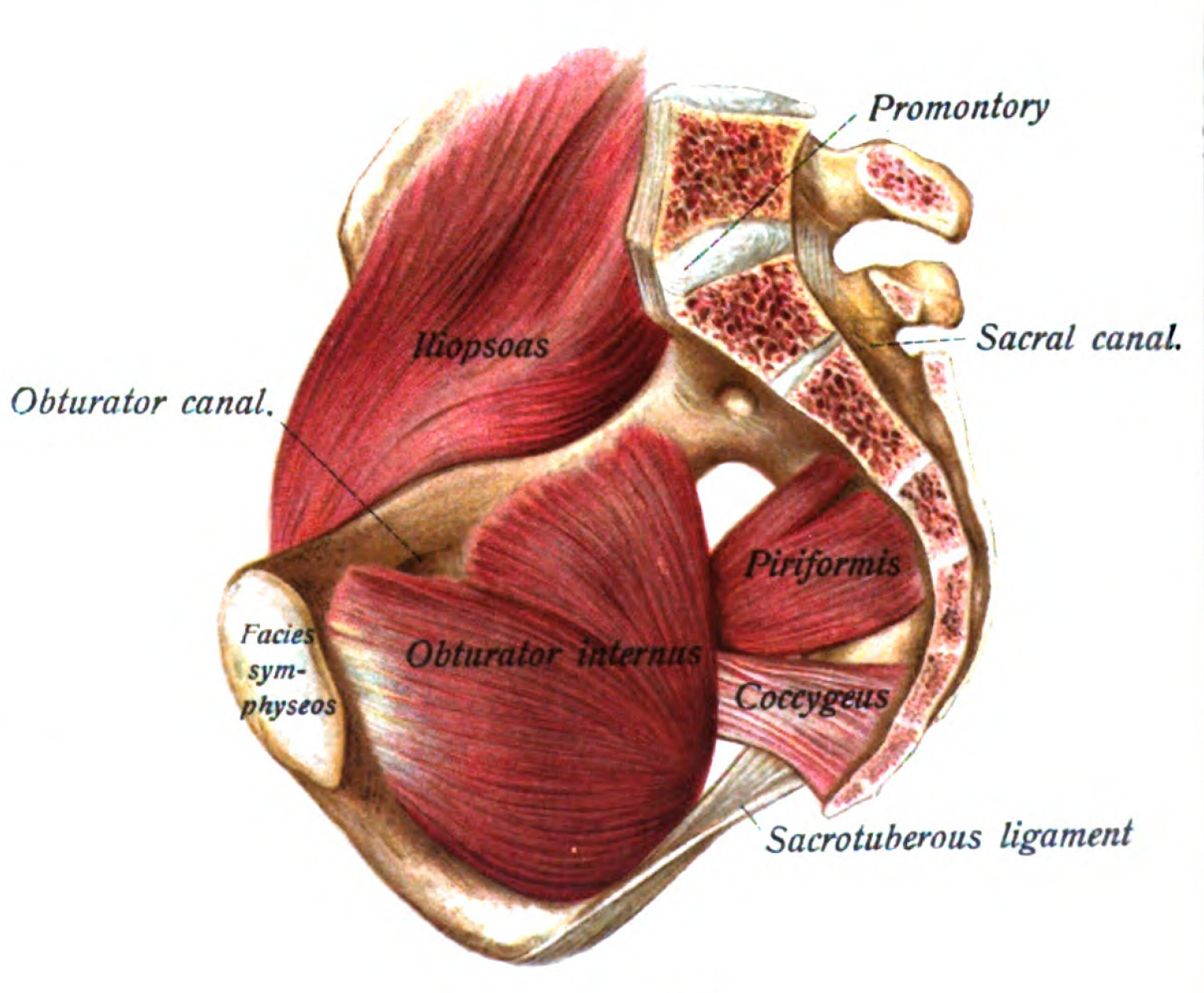 An anatomical illustration from the 1909 edition of Sobotta's Atlas and Text-book of Human Anatomy with English terminology.